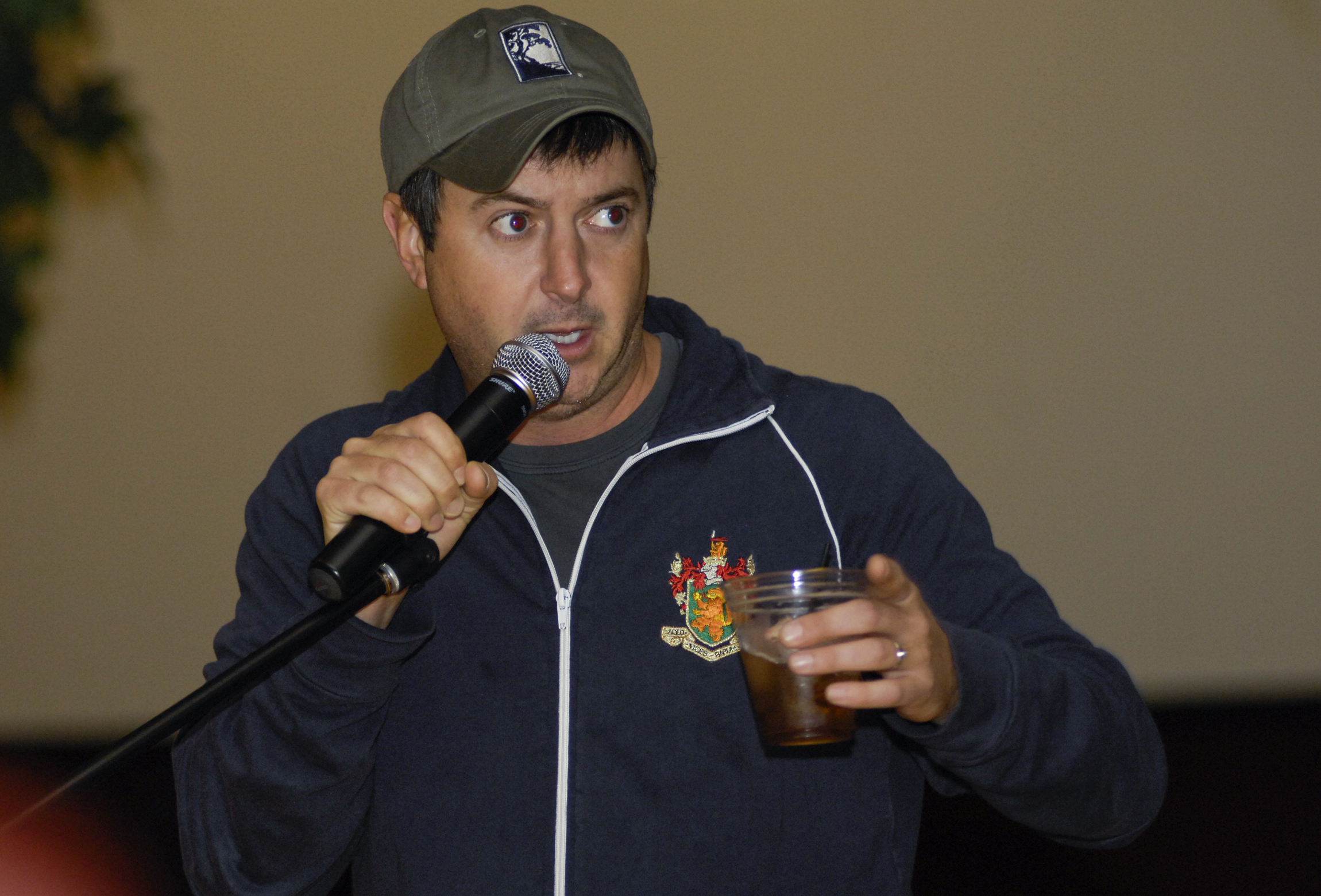 ELMENDORF AIR FORCE BASE, Alaska -- Stand-up comedian Brian Dunkleman entertains the audience at the Kashim Club Aug. 15. The 37-year-old comedian is best known for being a co-host on the first season of“American Idol.” (U.S. Air Force photo/Senior Airman David Carbajal)